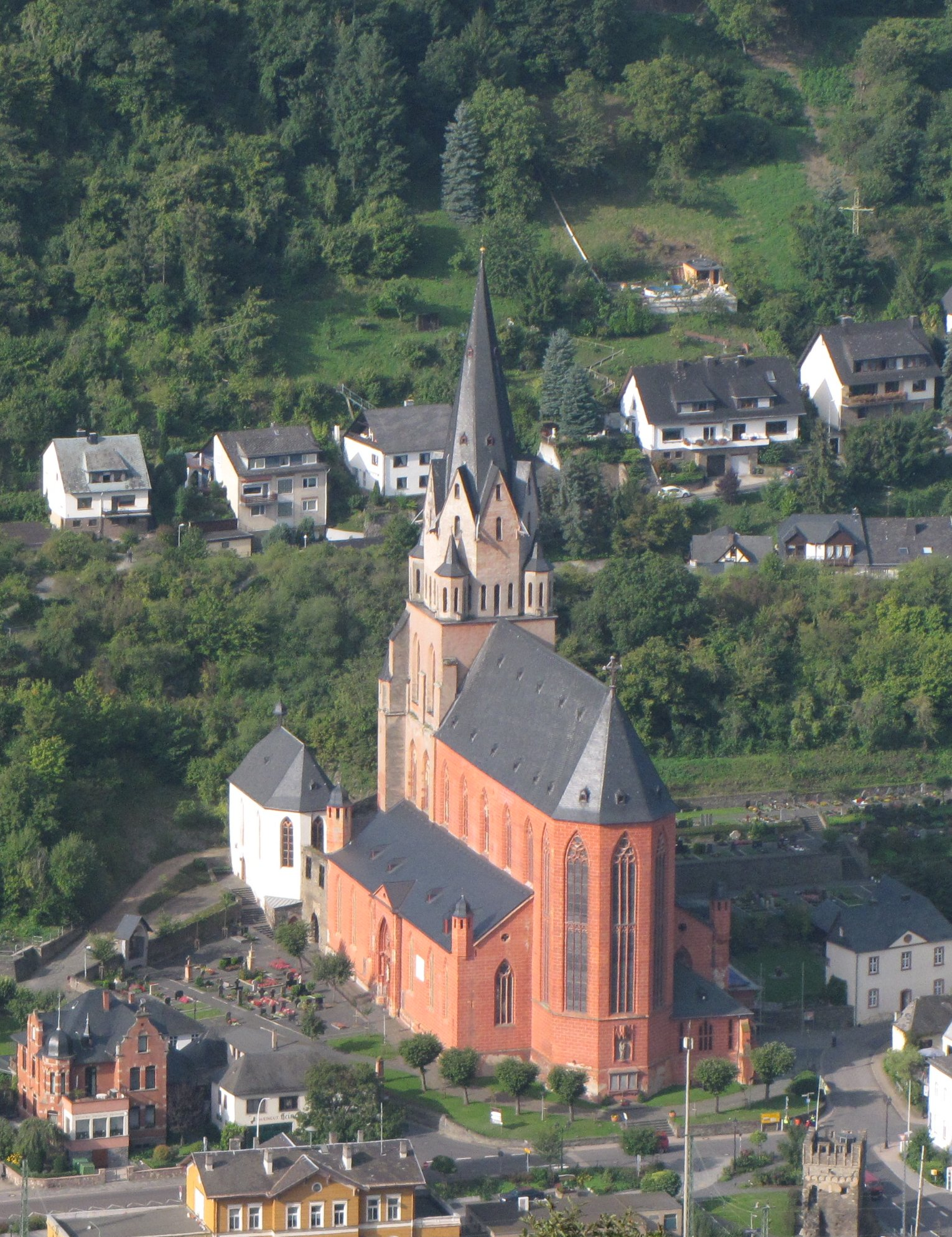 Catholic Parish Church of Our Lady (Pfarrkirche Liebfrauen) Oberwesel